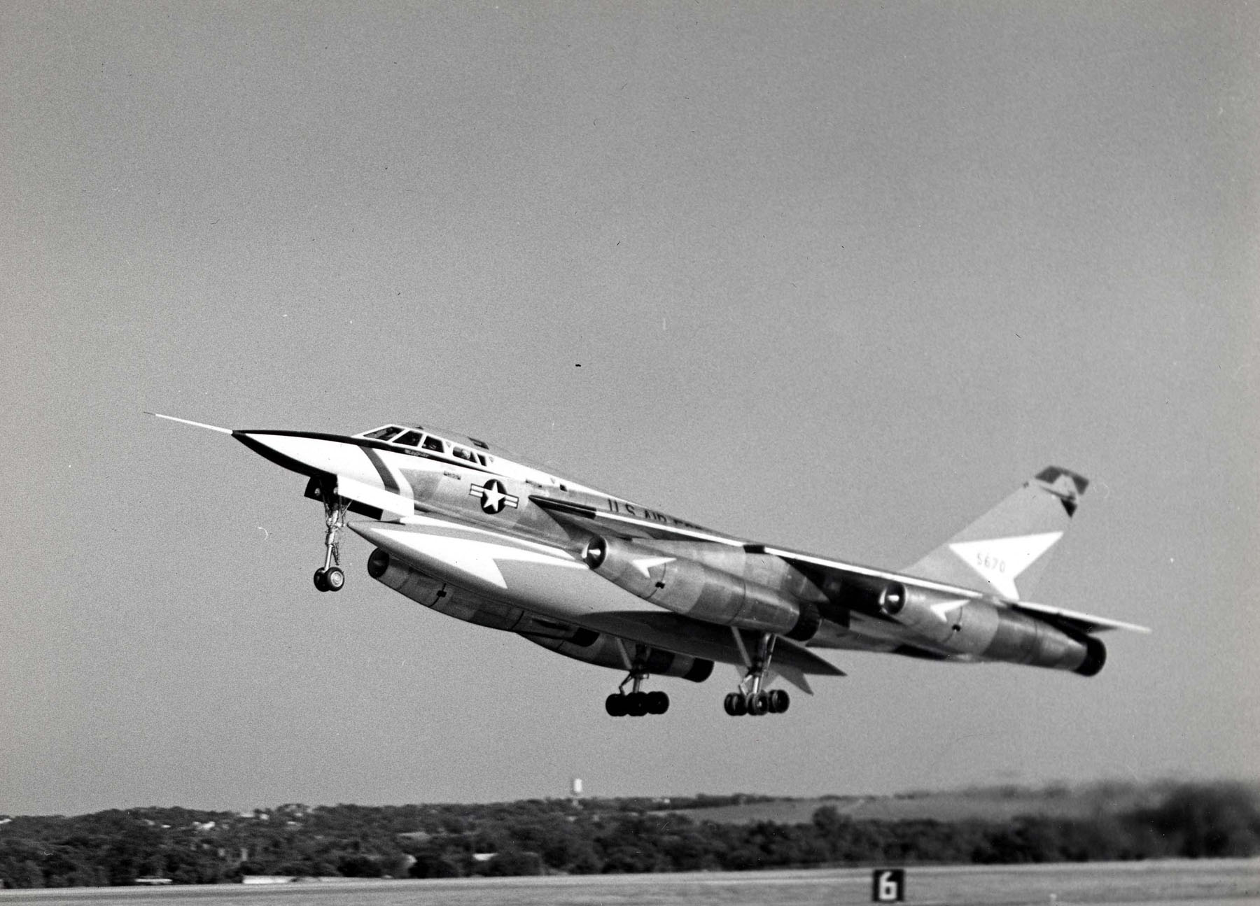 Convair TB-58A Hustler 3-4 side view